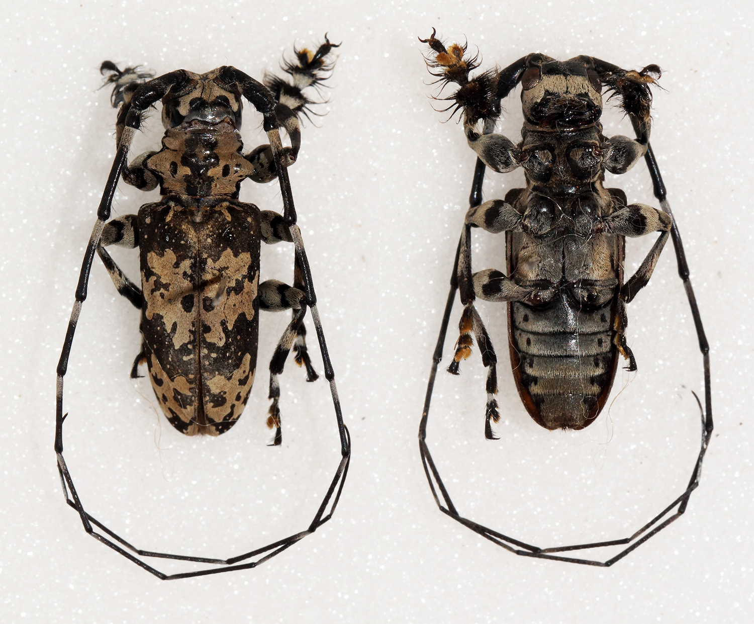 Quedenfeldt,1882 Sex: Male Data: 12-12-10 - Ruo Valley Forest - Mt Mulanje 96km East of Blantyre - South Malawi Size: 17mm